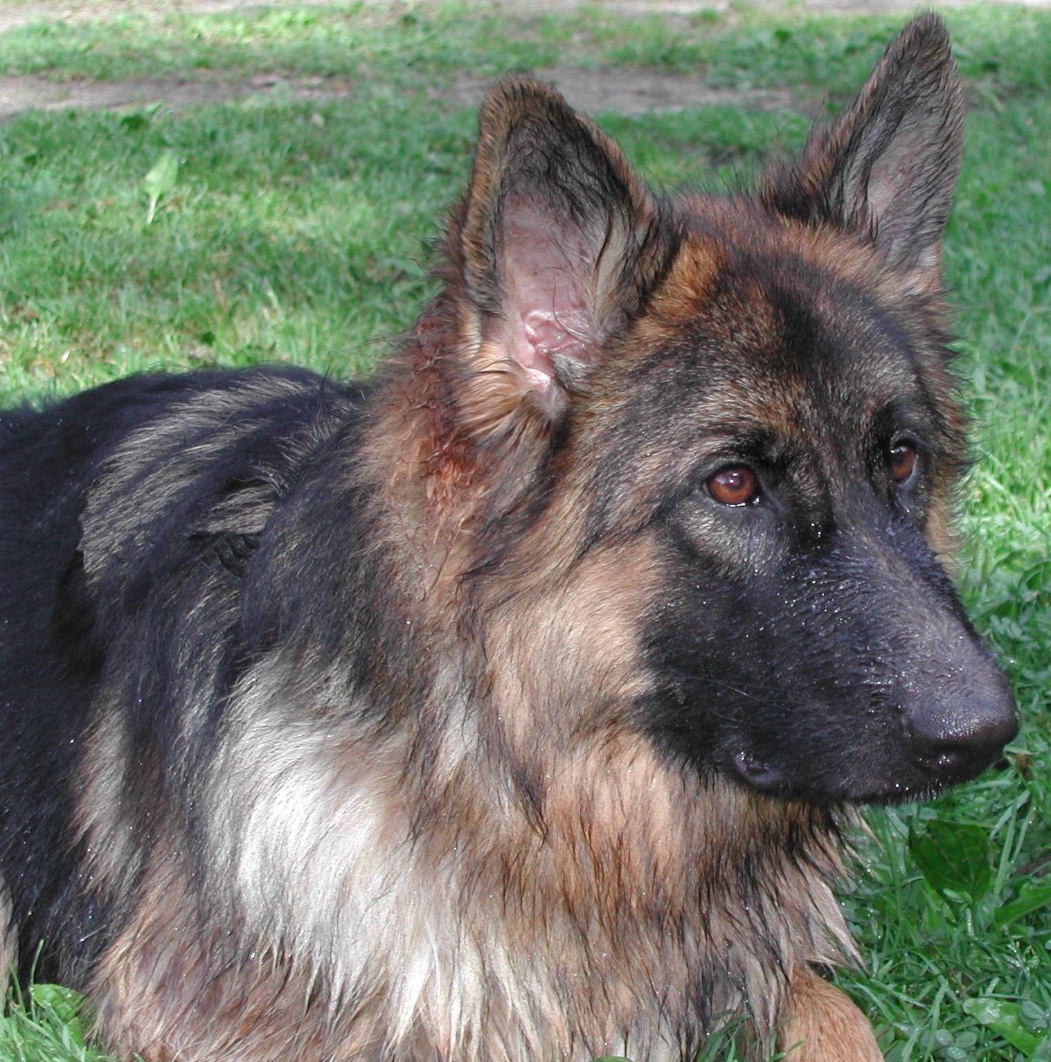 German Sheper